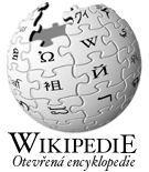 Logo of the Czech Wikipedia